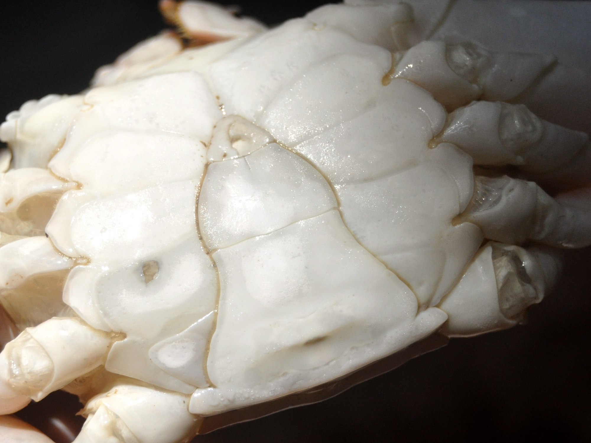 Charybdis feriata; male, 101mm carapace width, abdomen: with keeled 4th abdominal segment. From traditional market in Bogor, West Java, Indonesia.